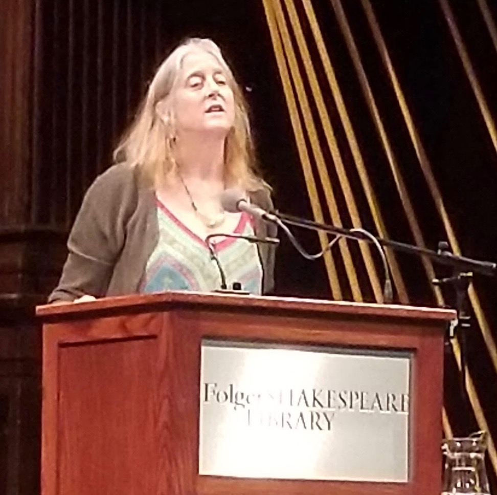 Poetry Reading by Annie Finch sponsored by the O.B.Hardison series of the Folger Shakespeare Library, October 28, 2019